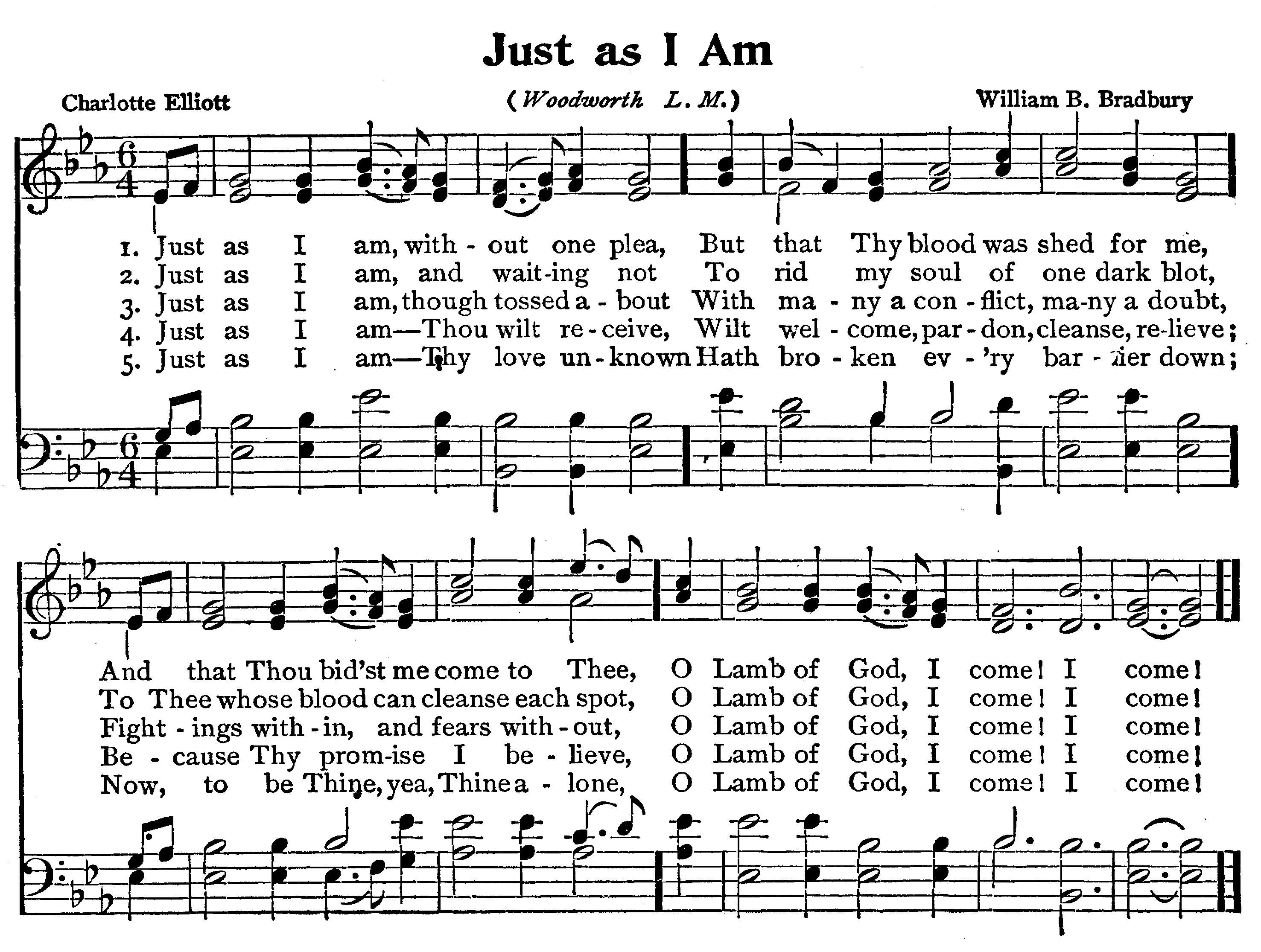 Just as I am, score